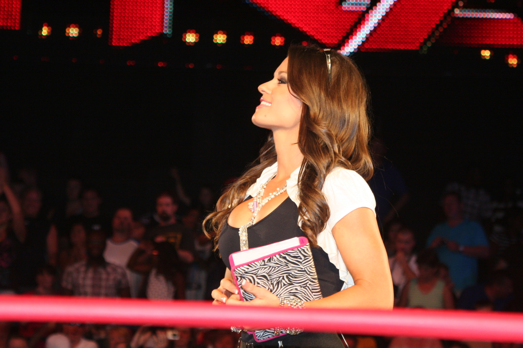 Miss Tessmacher (Brooke Adams) at a TNA Impact! taping.